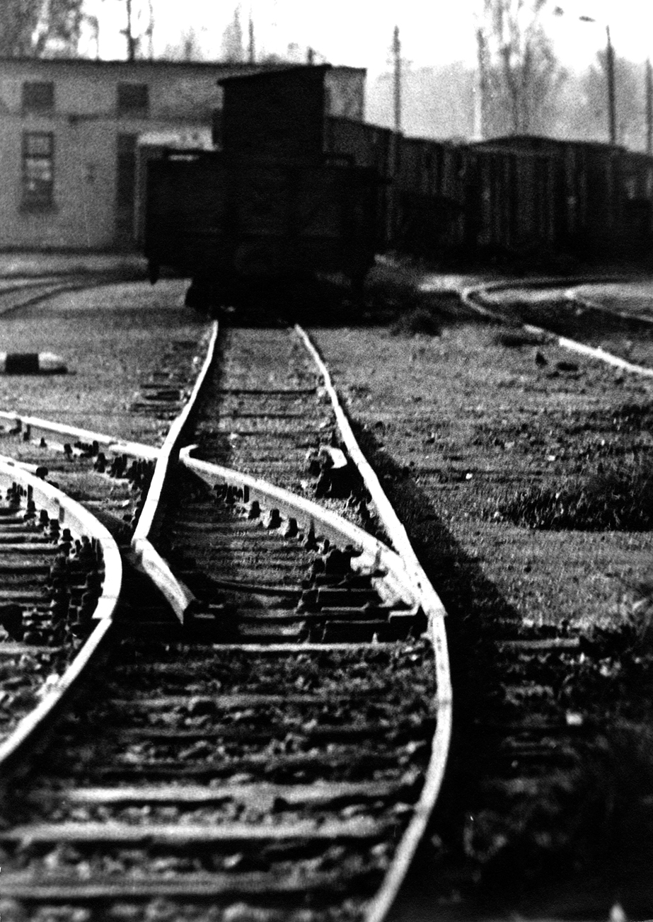 The railway station of the Úttörővasút in Dombóvár, Hungary